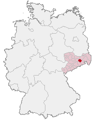 Location, Dresden in Germany